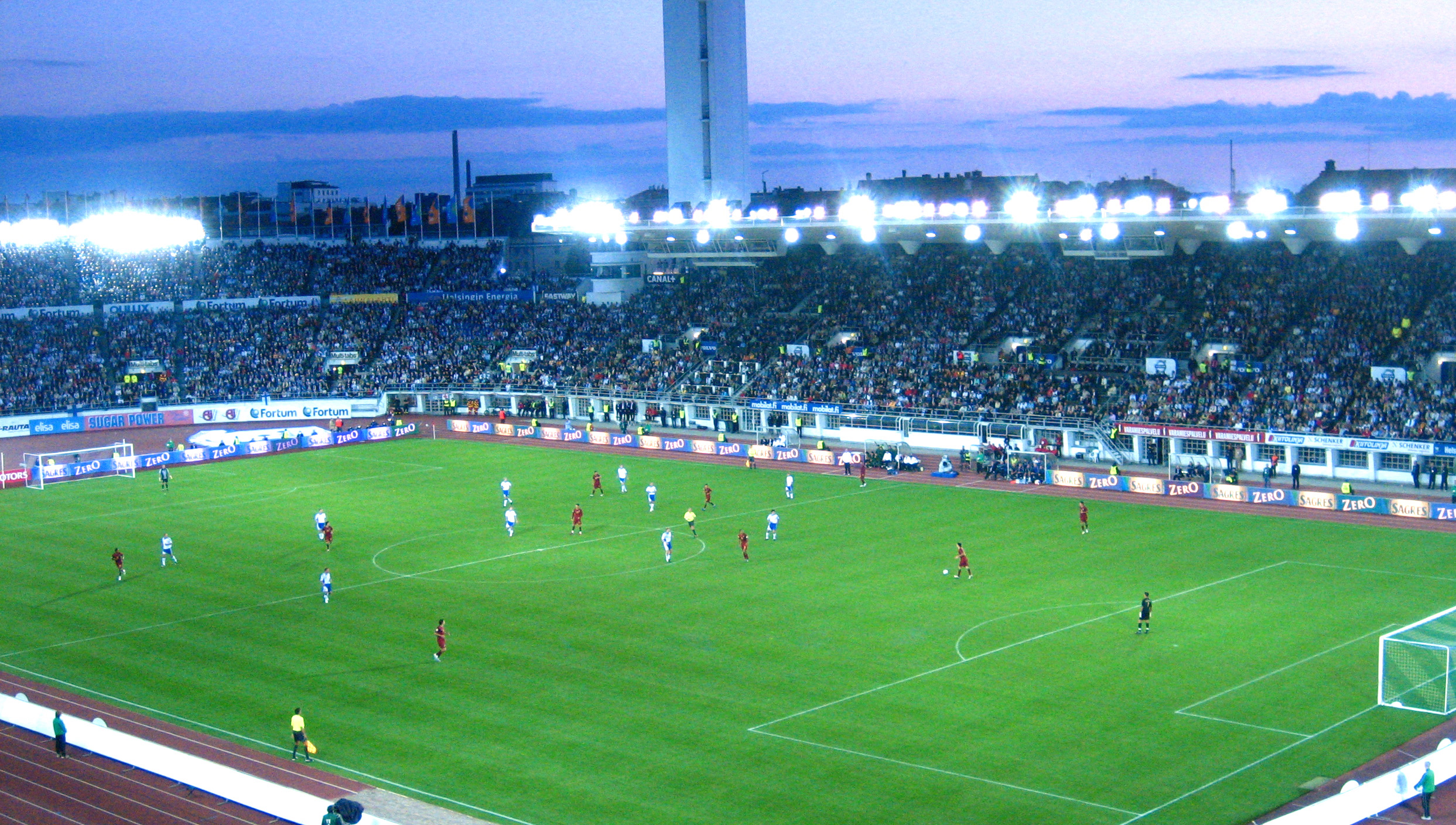 Finland - Portugal, 06 Sept 2006 Olympiastadion